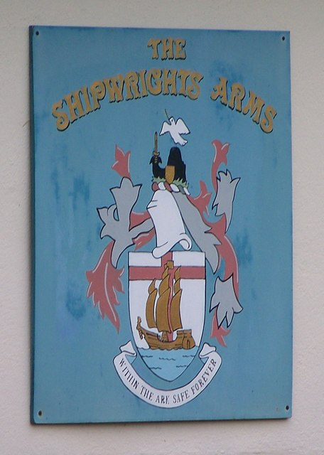 Shipwrights Coat of Arms The second of the two signs on the Shipwrights Arms public house.